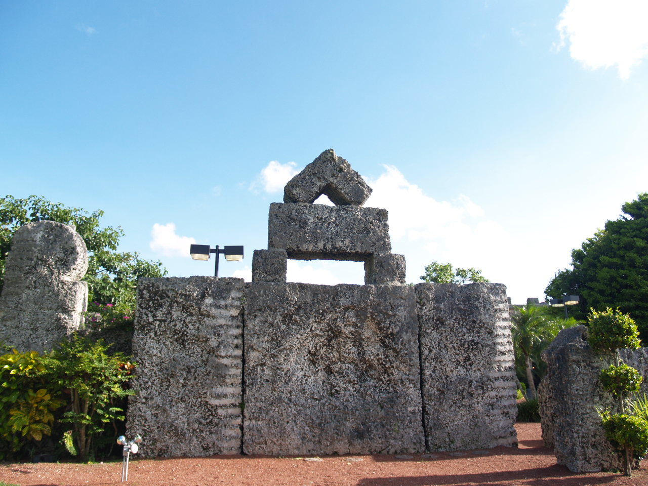 Coral Castle in Homestead, Florida